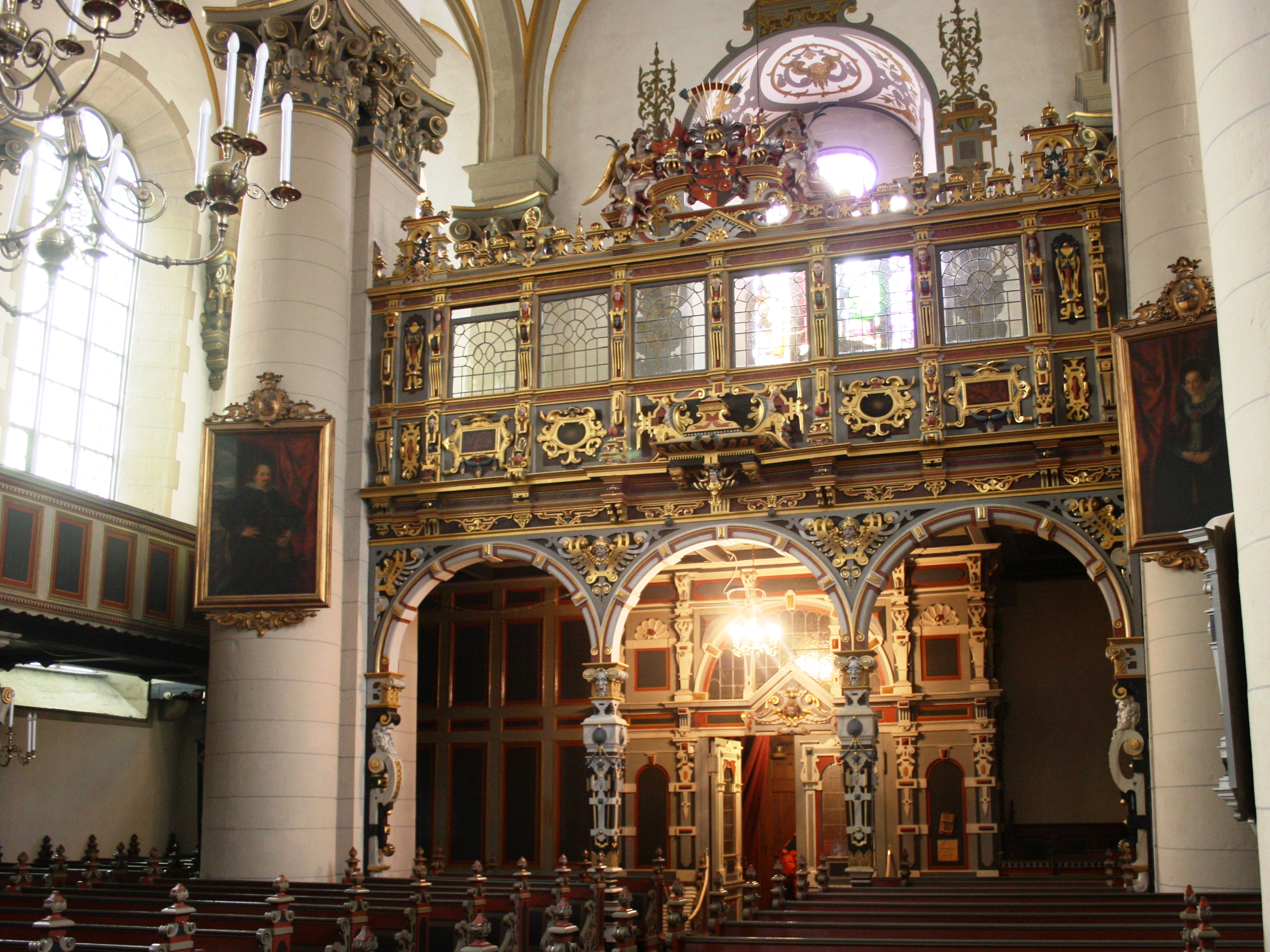 Townchurch in Bückeburg, Germany. Interior towards West.